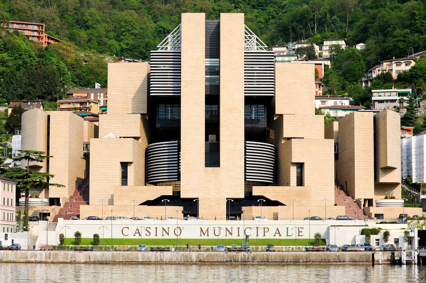 Casinò Campione d'Italia, daytime 2.